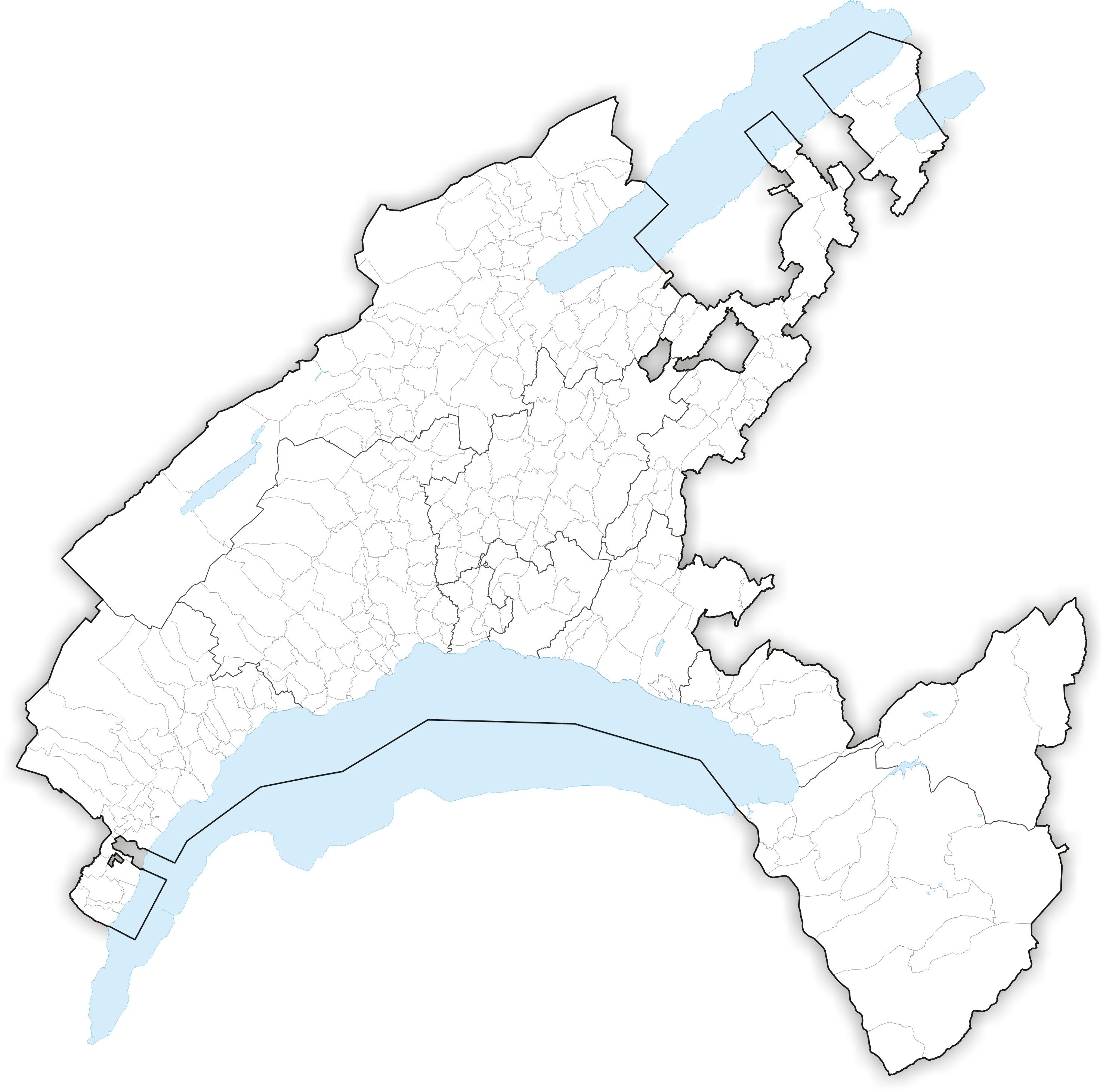 Municipalities in Canton Waadt